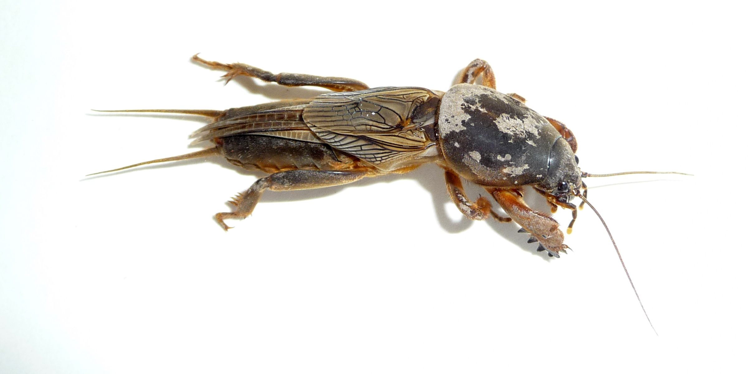 Mole cricket (Gryllotalpa gryllotalpa). Ukraine.